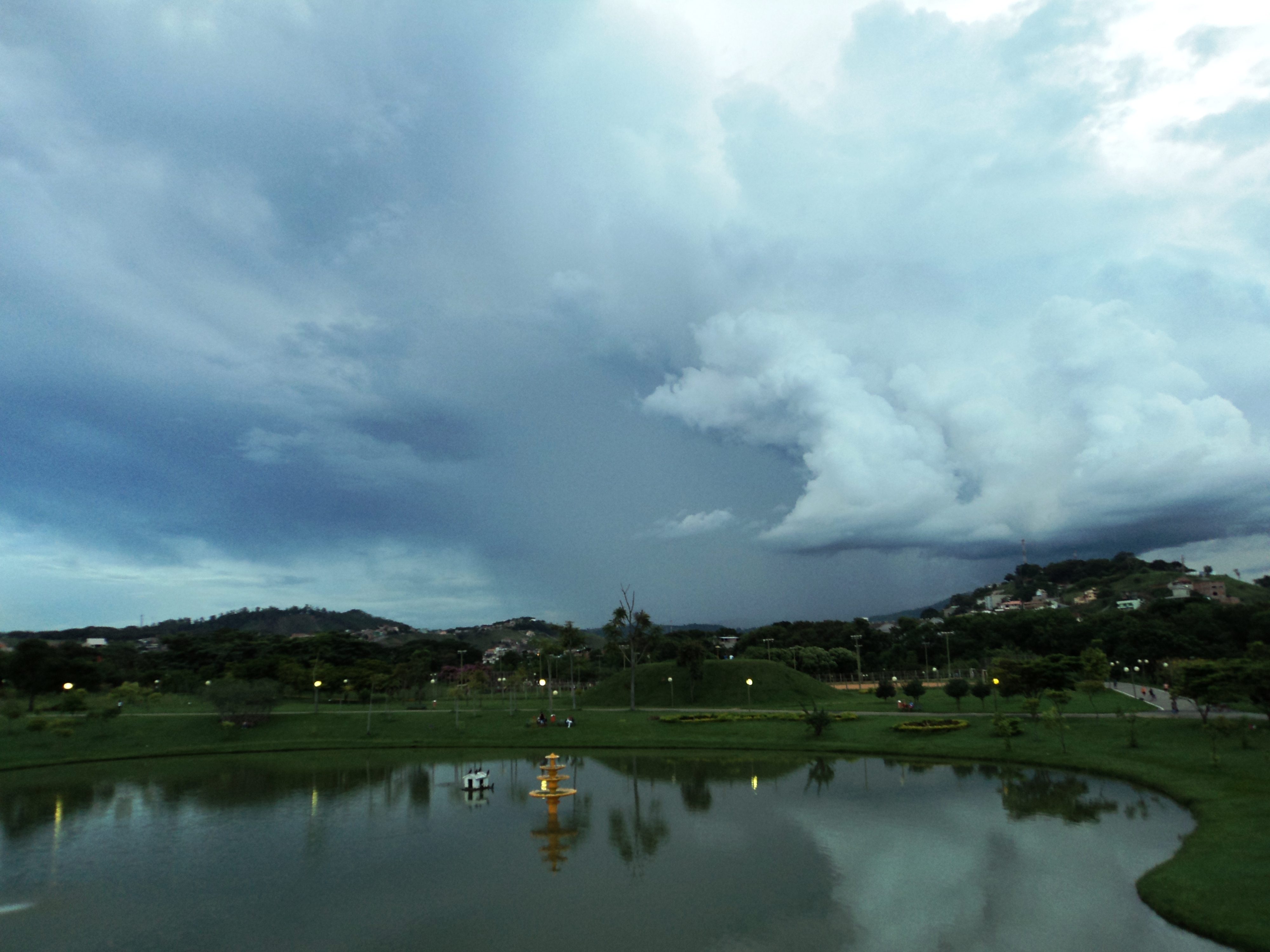 Rain in Ipatinga, Minas Gerais, Brazil.